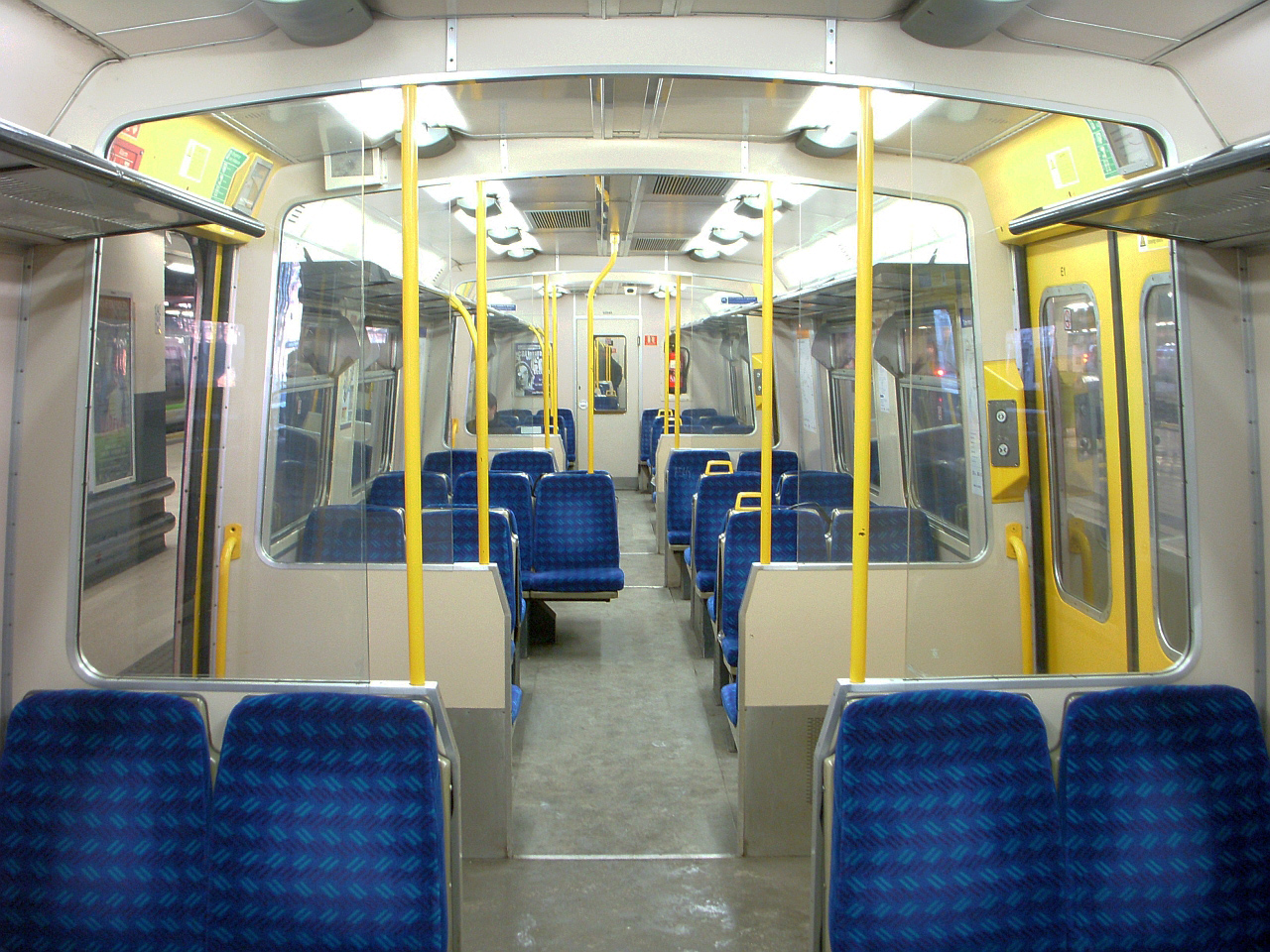 The interior of London Overground's Class 313 unit number 313117 at London Euston station.